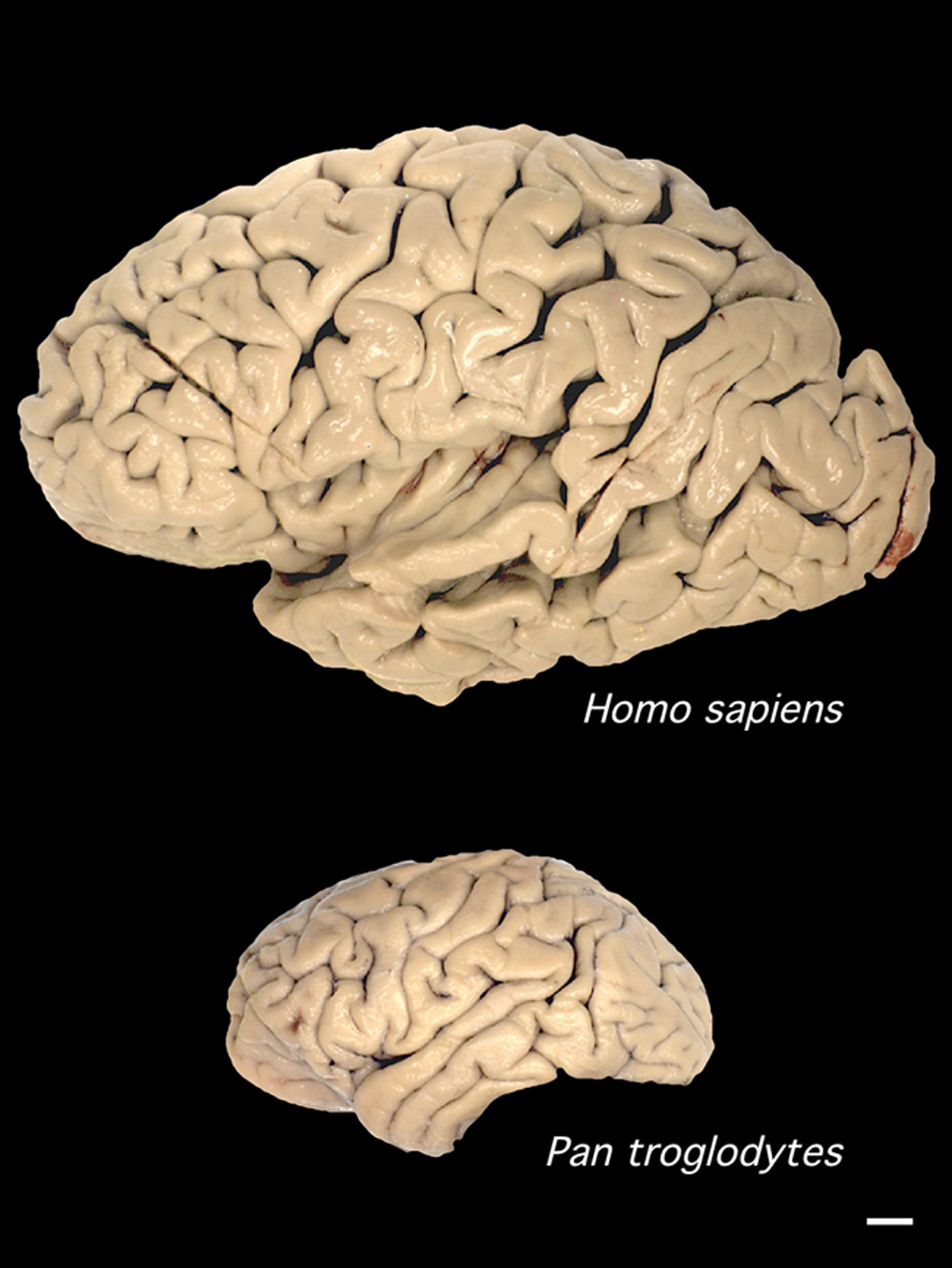 Comparison of a Human and a Chimpanzee Brain Scale bar = 1 cm